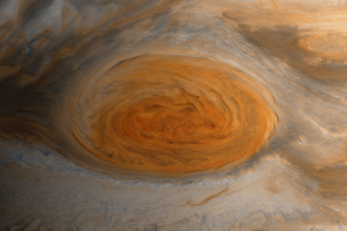 Assembled using infrared and violet filtered images. NASA/JPL-Caltech/Kevin M. Gill